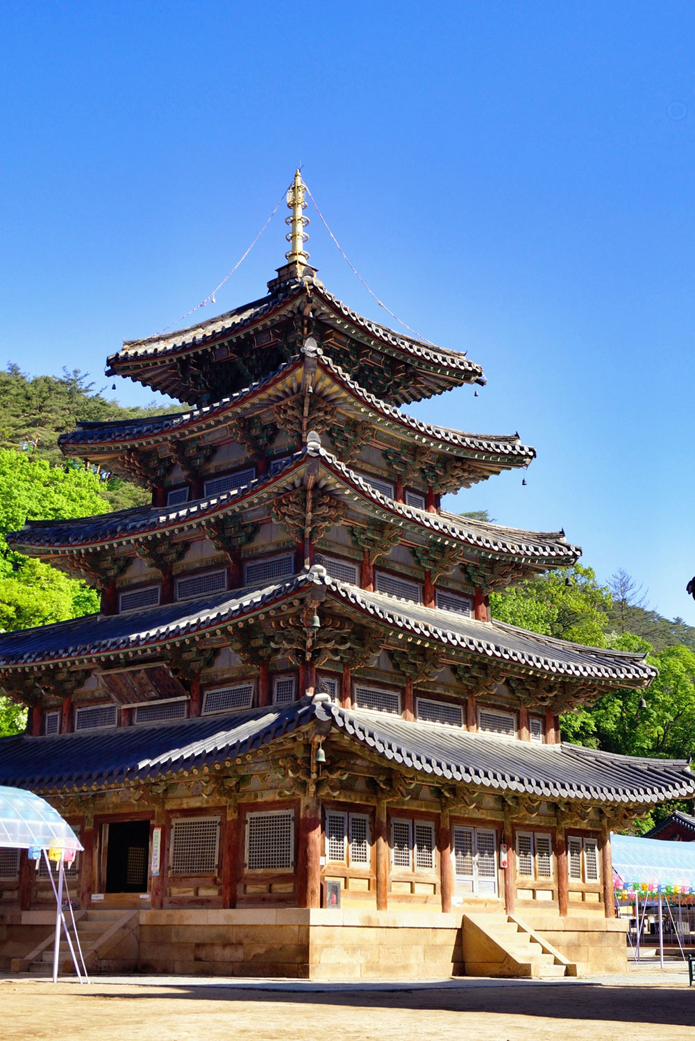 Palsangjeon, a five-story wooden pagoda rises up in the center of the Beopjusa Temple Grounds.